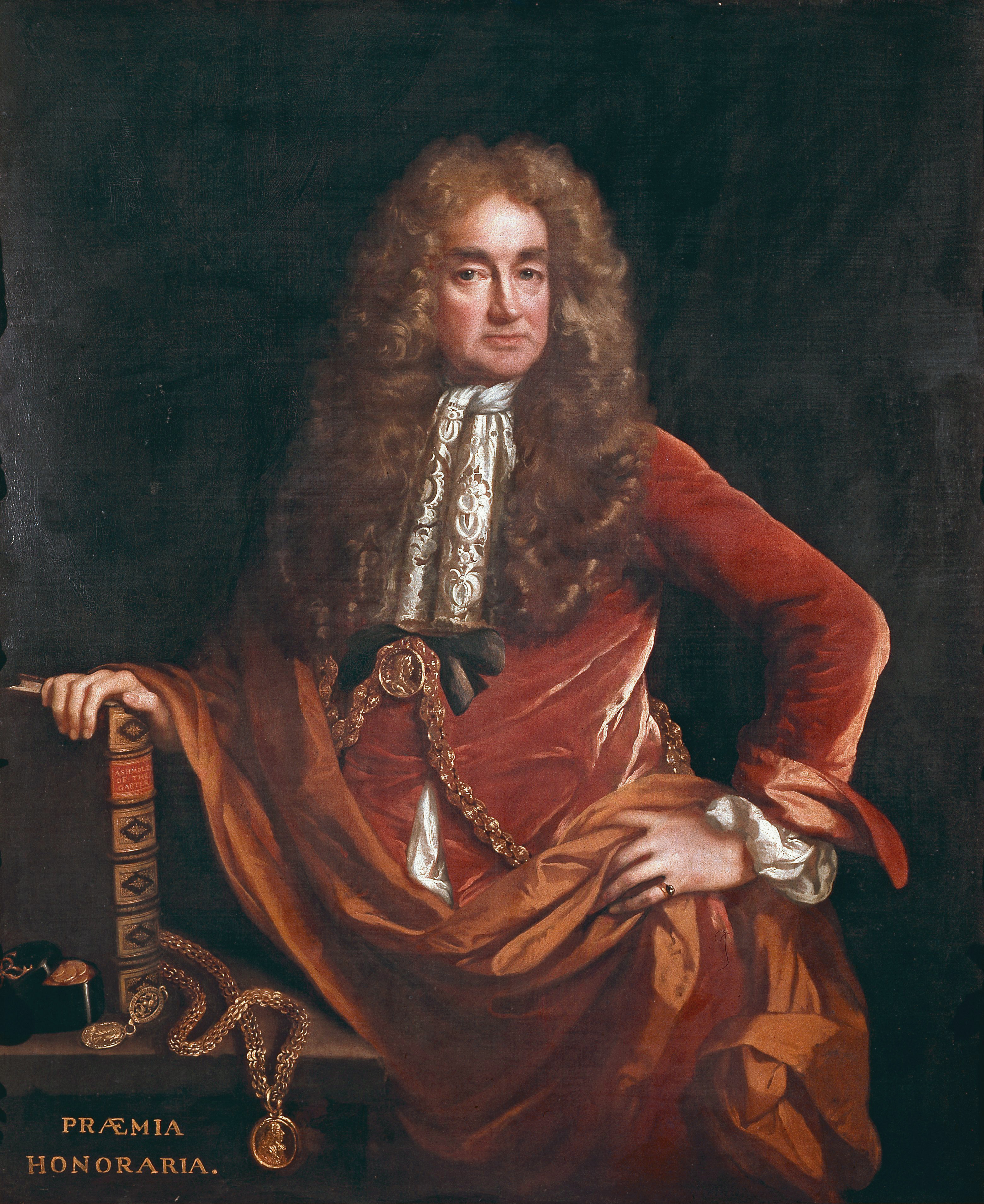 Portrait of Elias Ashmole (1617-1692)